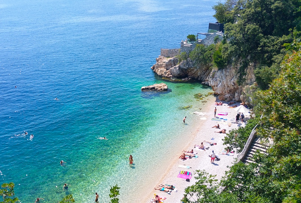 Sablićevo Beach in Rijeka